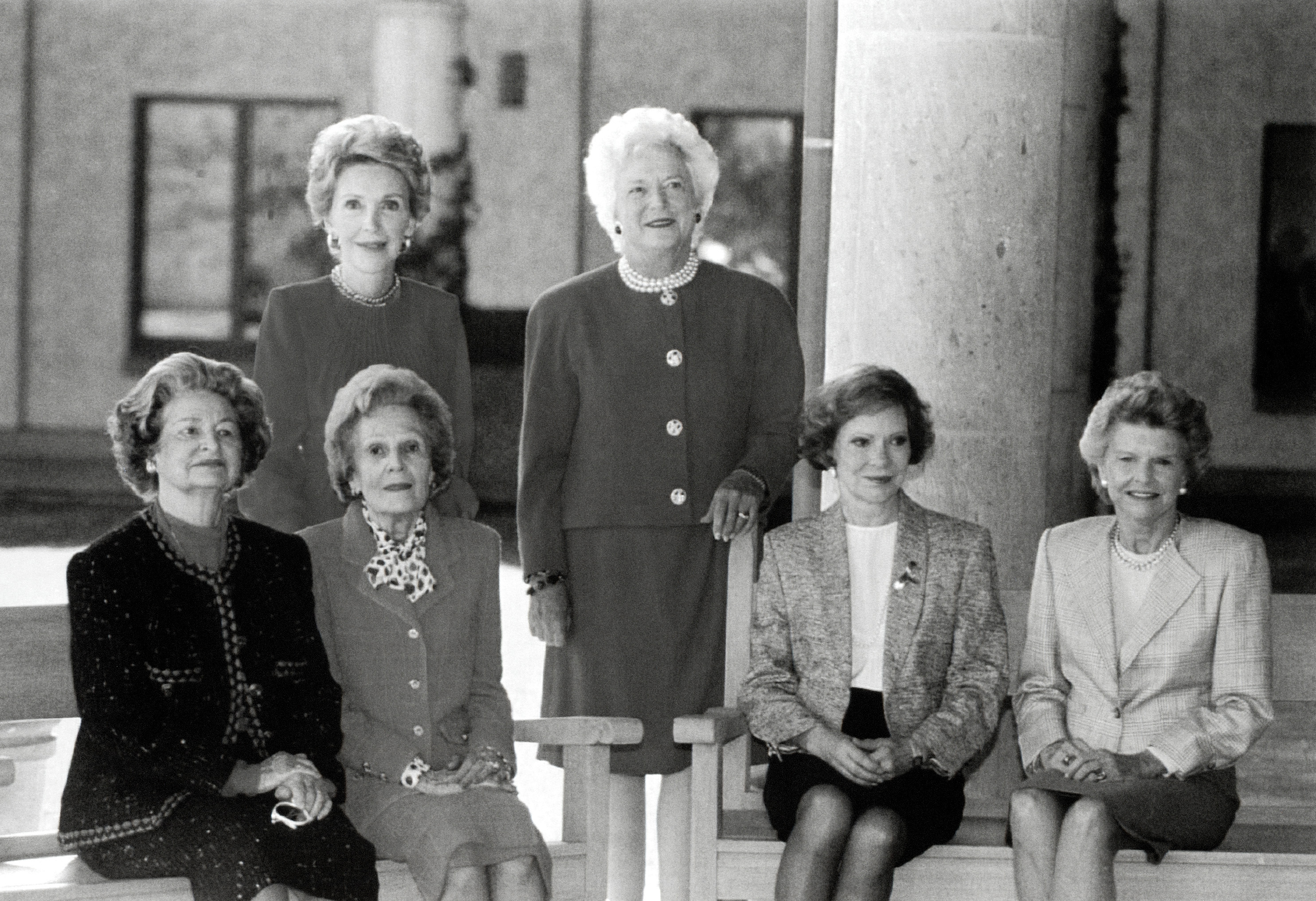 First Ladies Lady Bird Johnson, Pat Nixon, Rosalynn Carter, Betty Ford (front row, left to right), Nancy Reagan, and Barbara Bush (standing, left to right) at the dedication of the Ronald Reagan Presidential Library